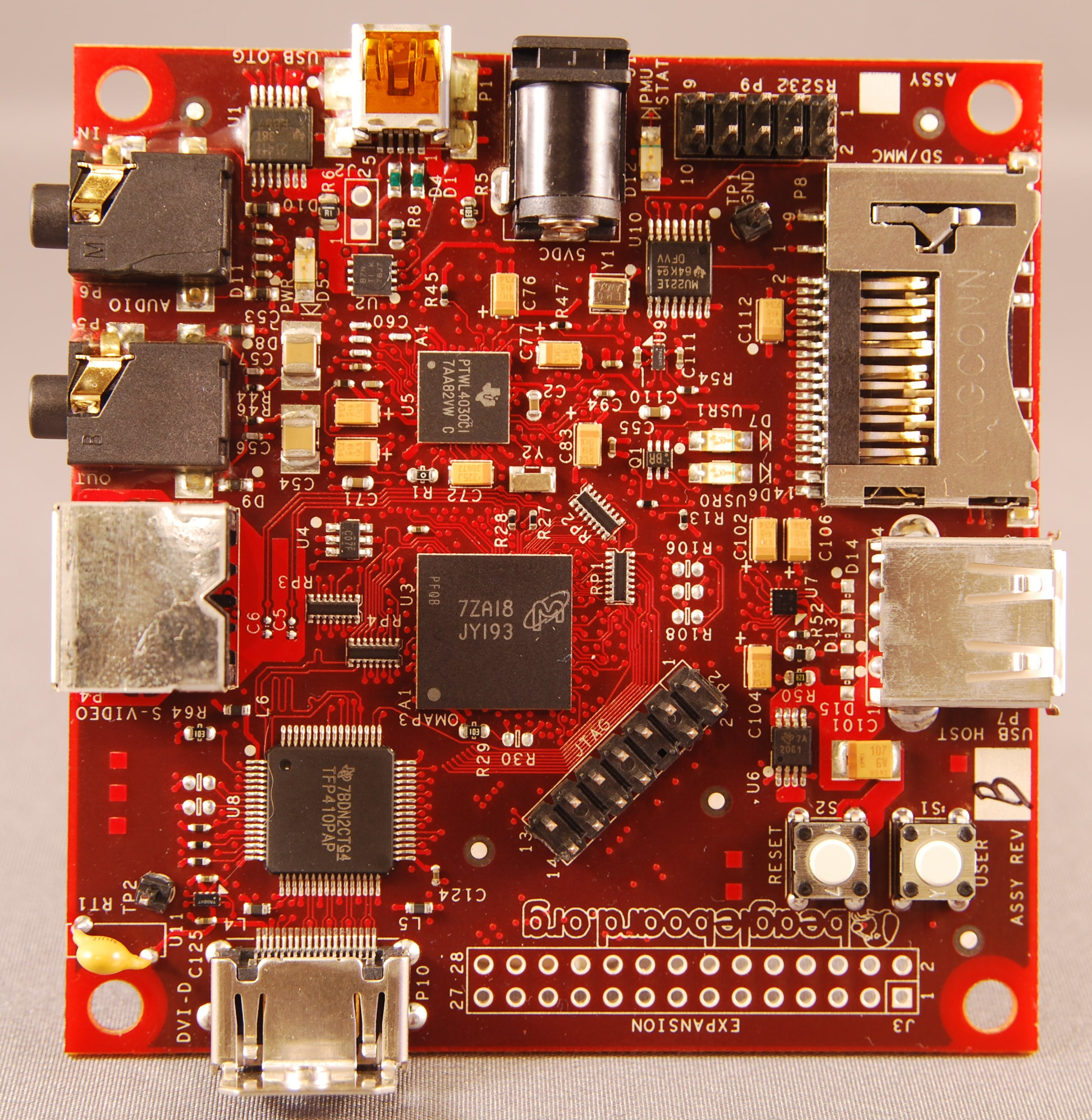 Beagle Board big